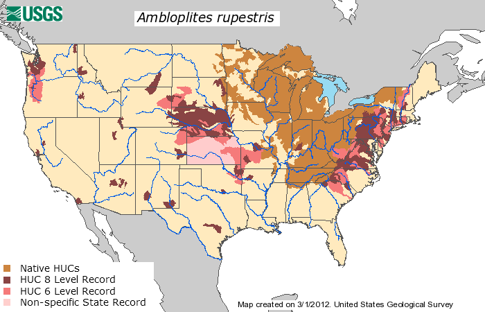 Map showing the geographical distribution of Ambloplites rupestris.